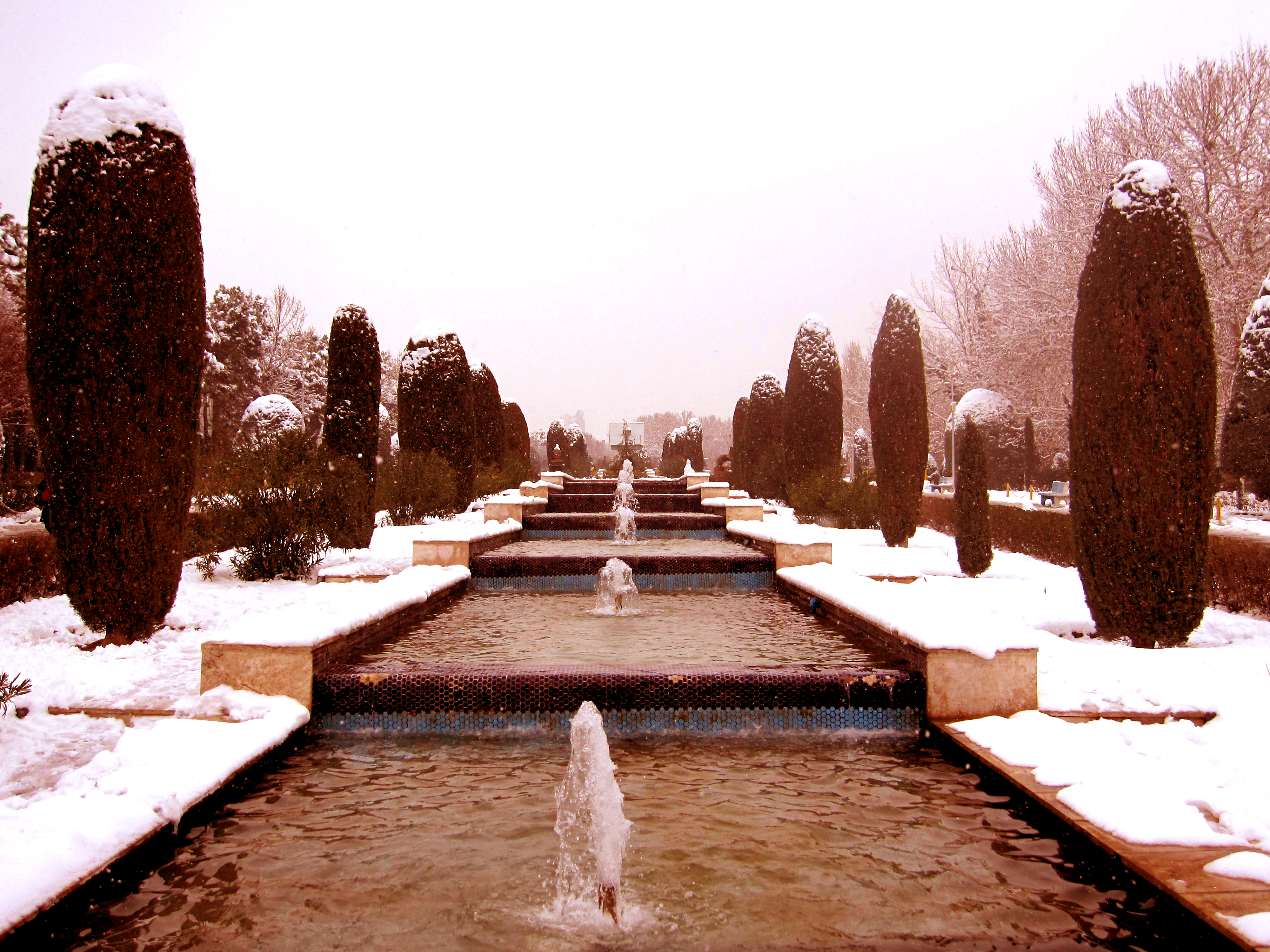 Iran - Tehran - Laleh Park in winter